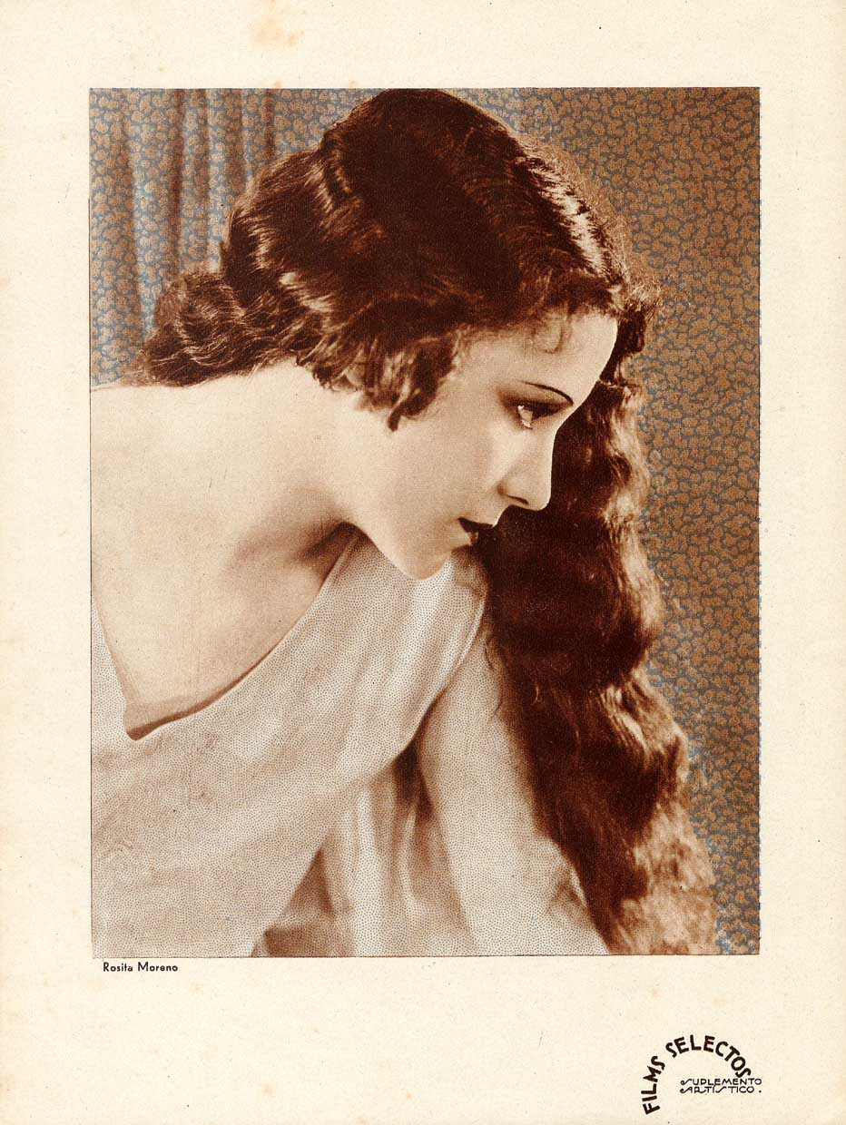 Publicity photo of Rosita Moreno [1] for Argentinean Magazine. (Printed in USA)